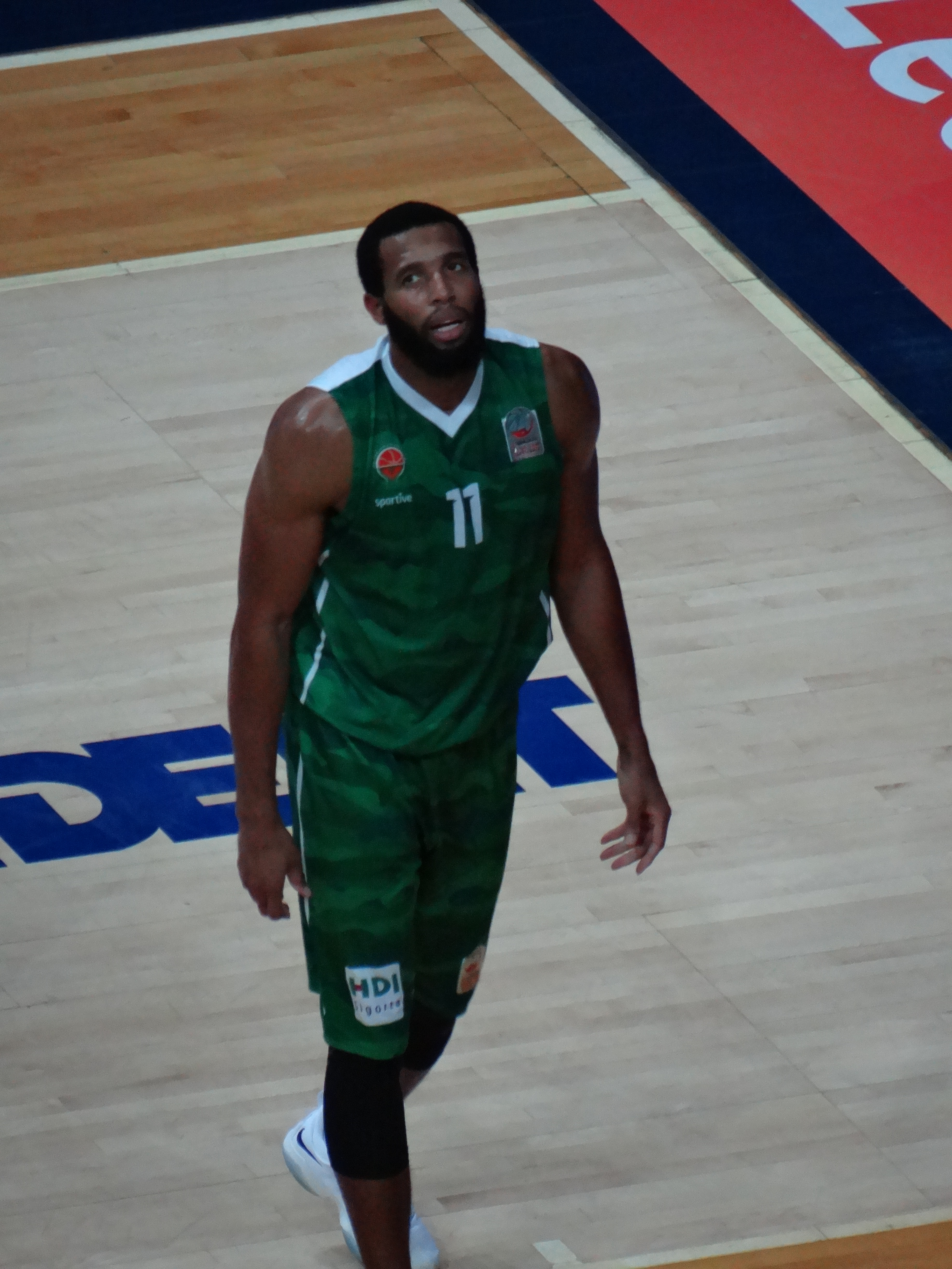 Quinton Hosley 11 Yeşilgiresun Belediye 20171210